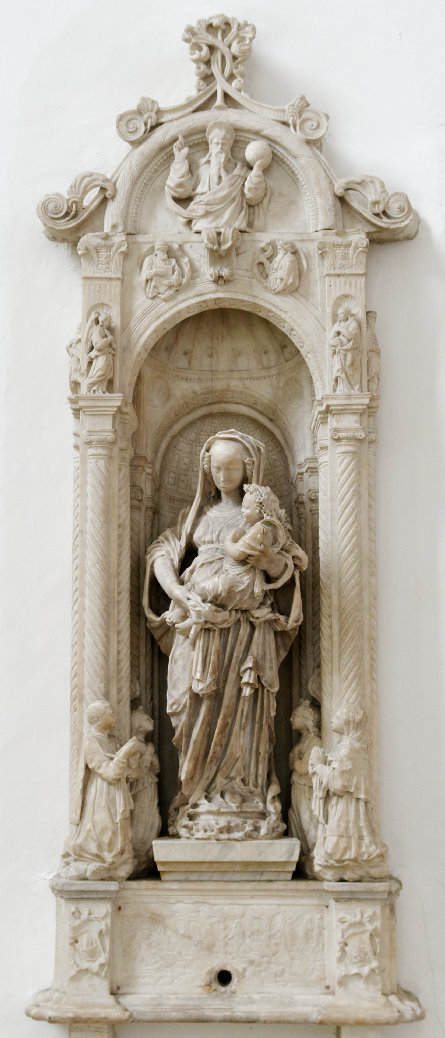 Tabernacle: with the Virgin and Child.